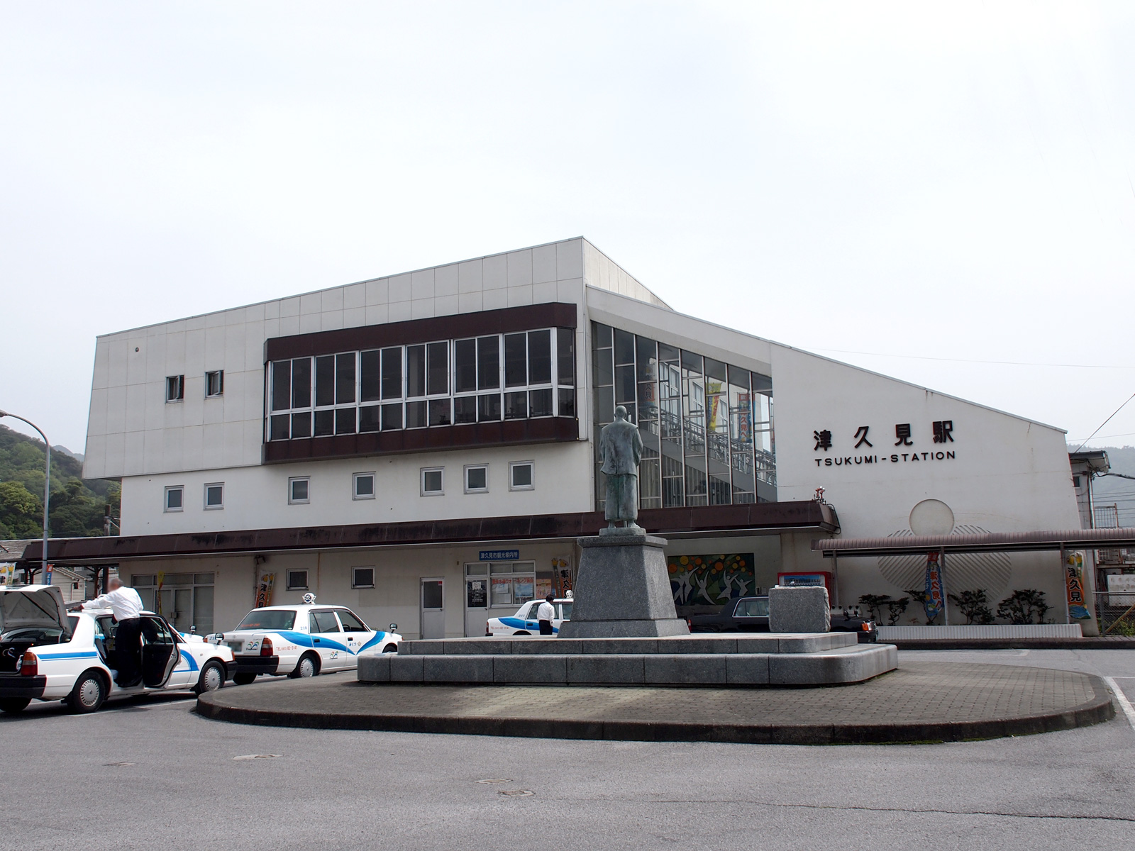 JR Kyushu Tsukumi Station, Tsukumi, Oita, Japan